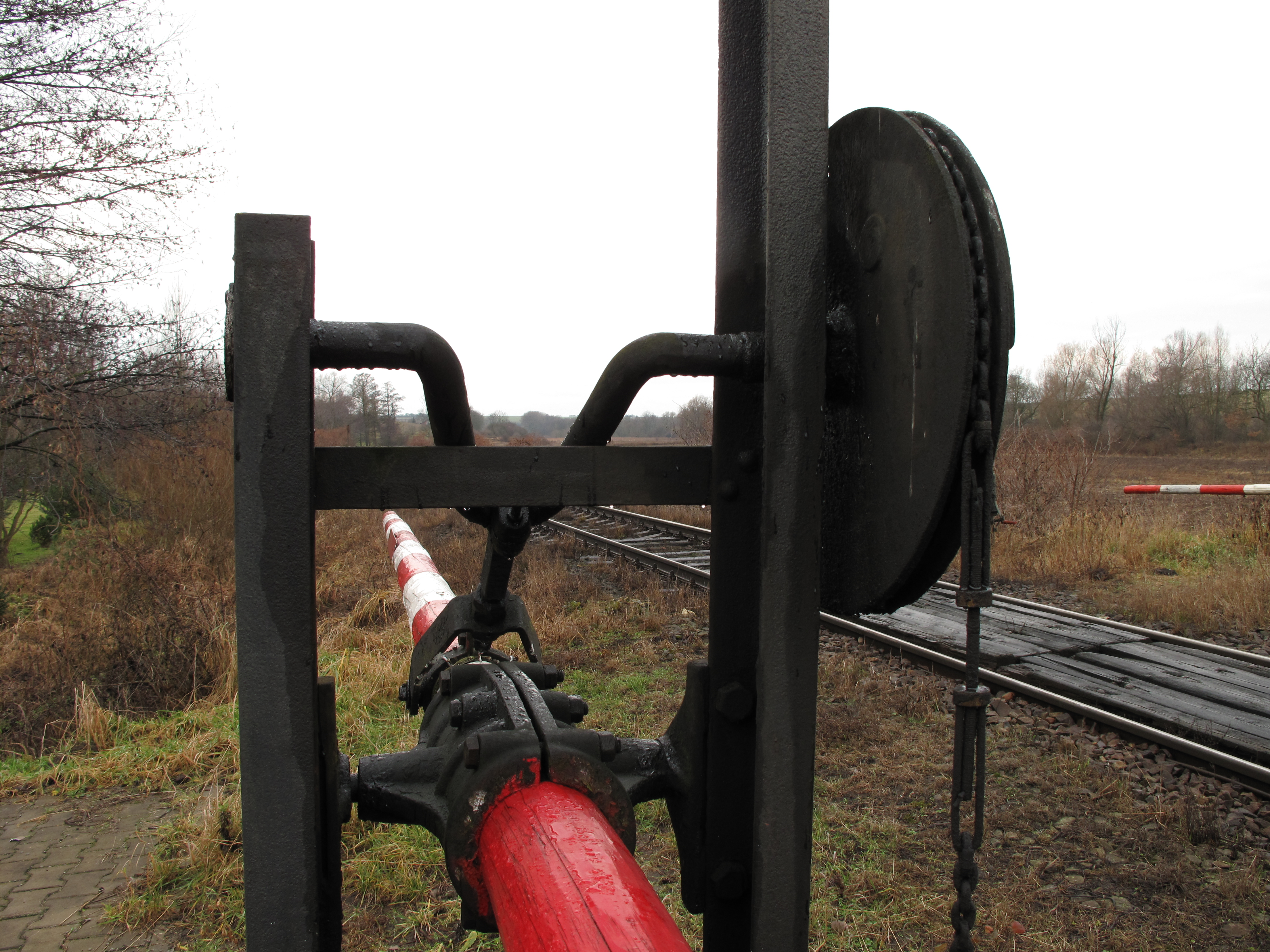 Crossing gate in detail in Kojovice village, Mladá Boleslav District, Czech Republic.